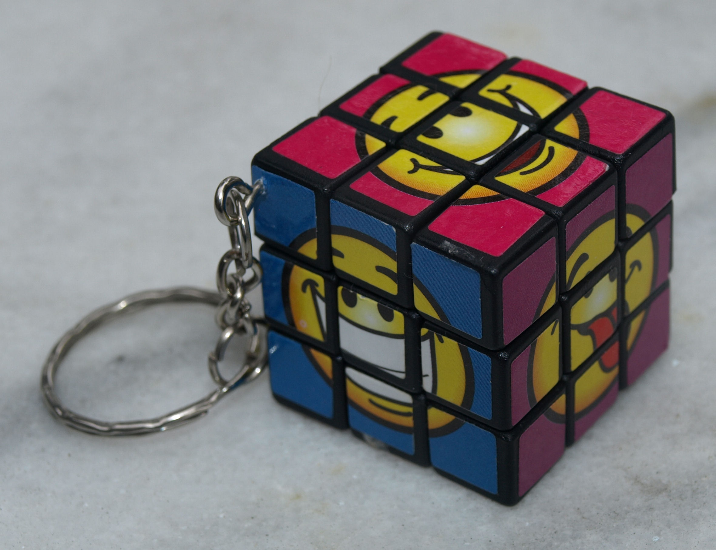 Novelty keychain version of the Rubik's Cube with smiley faces on the sides. Won at carnival.